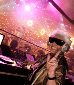 Ruth Flowers @ Queen 29.01.2010